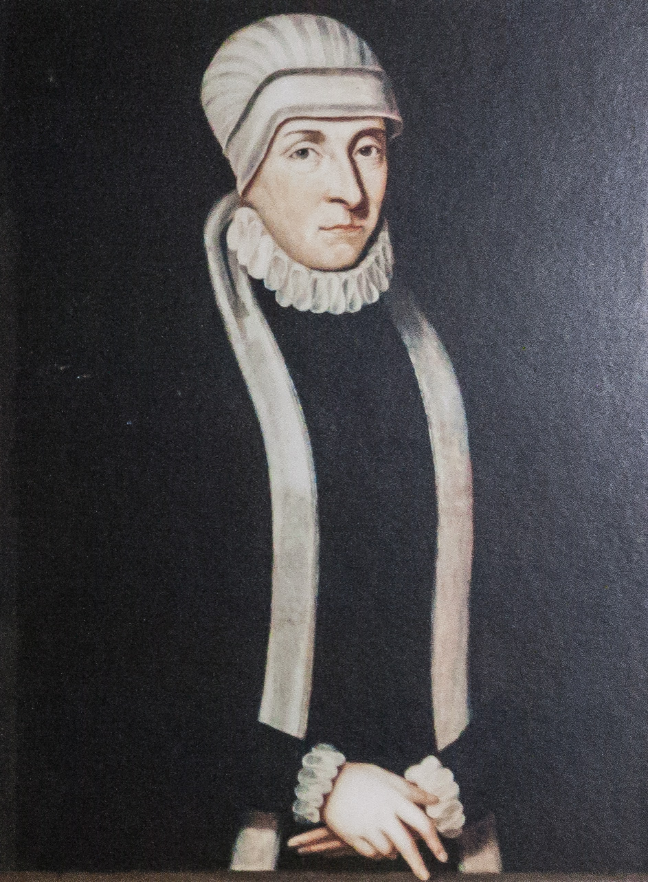 Anna Cirksena, unsigned portrait. See this article on the image's restoration for further information (in German).